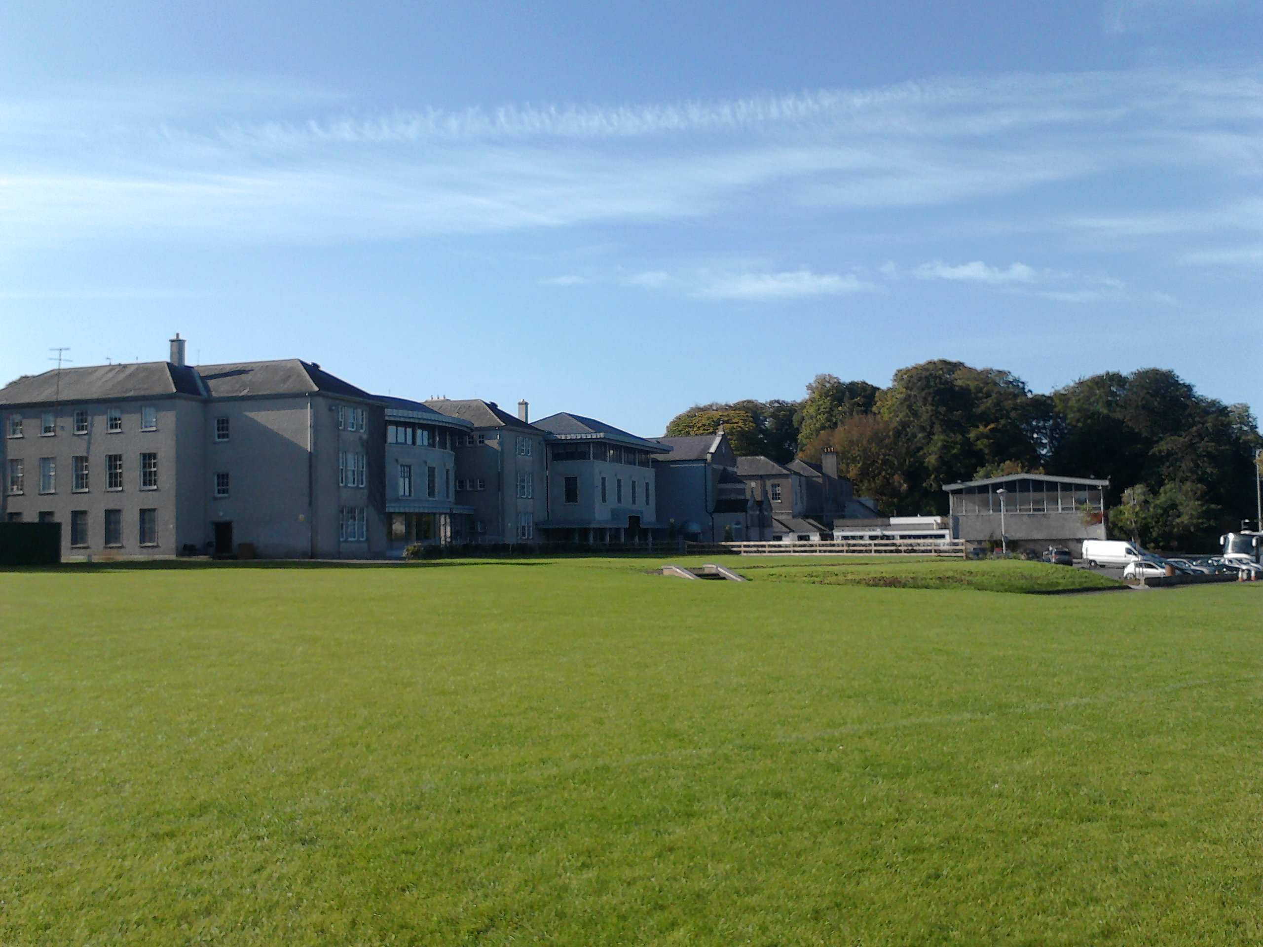 Castleknock College.